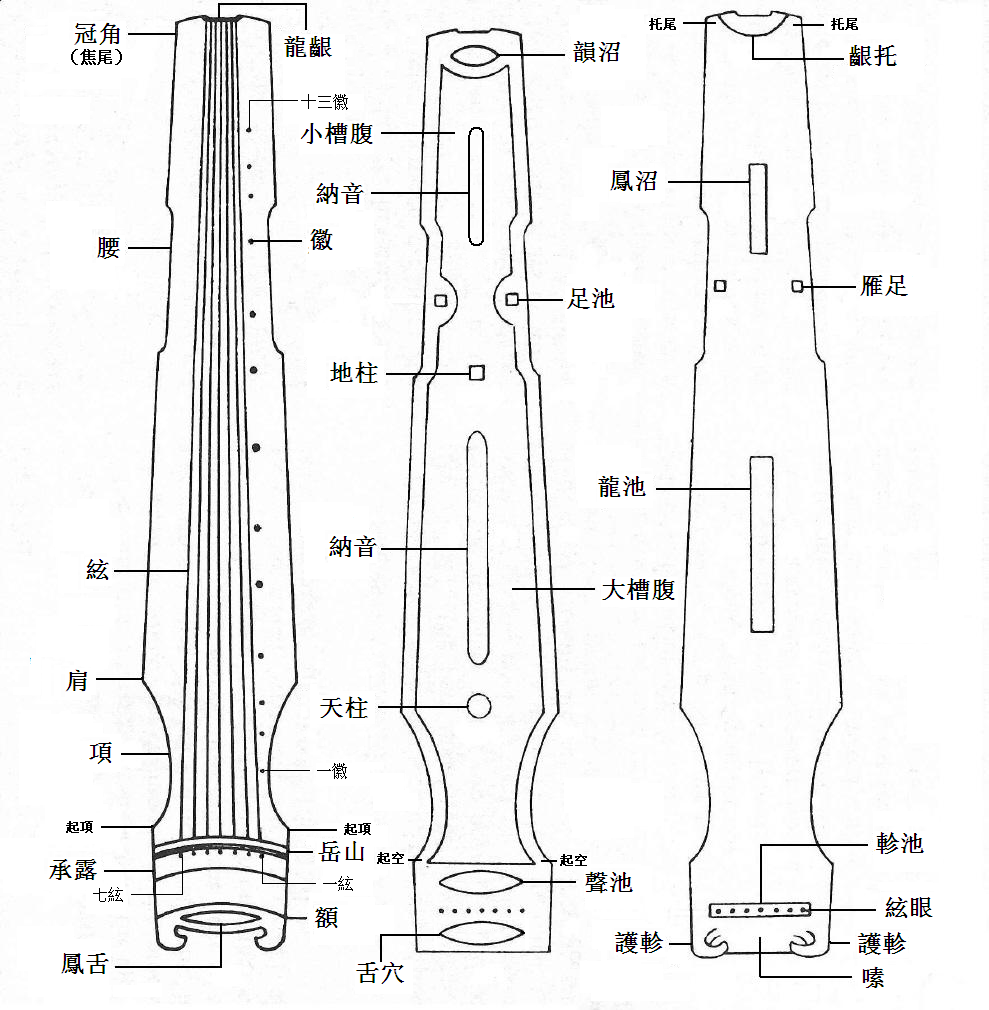 Names of (from left to right) the front, inside and back parts of the guqin. A Chinese version, enhanced.